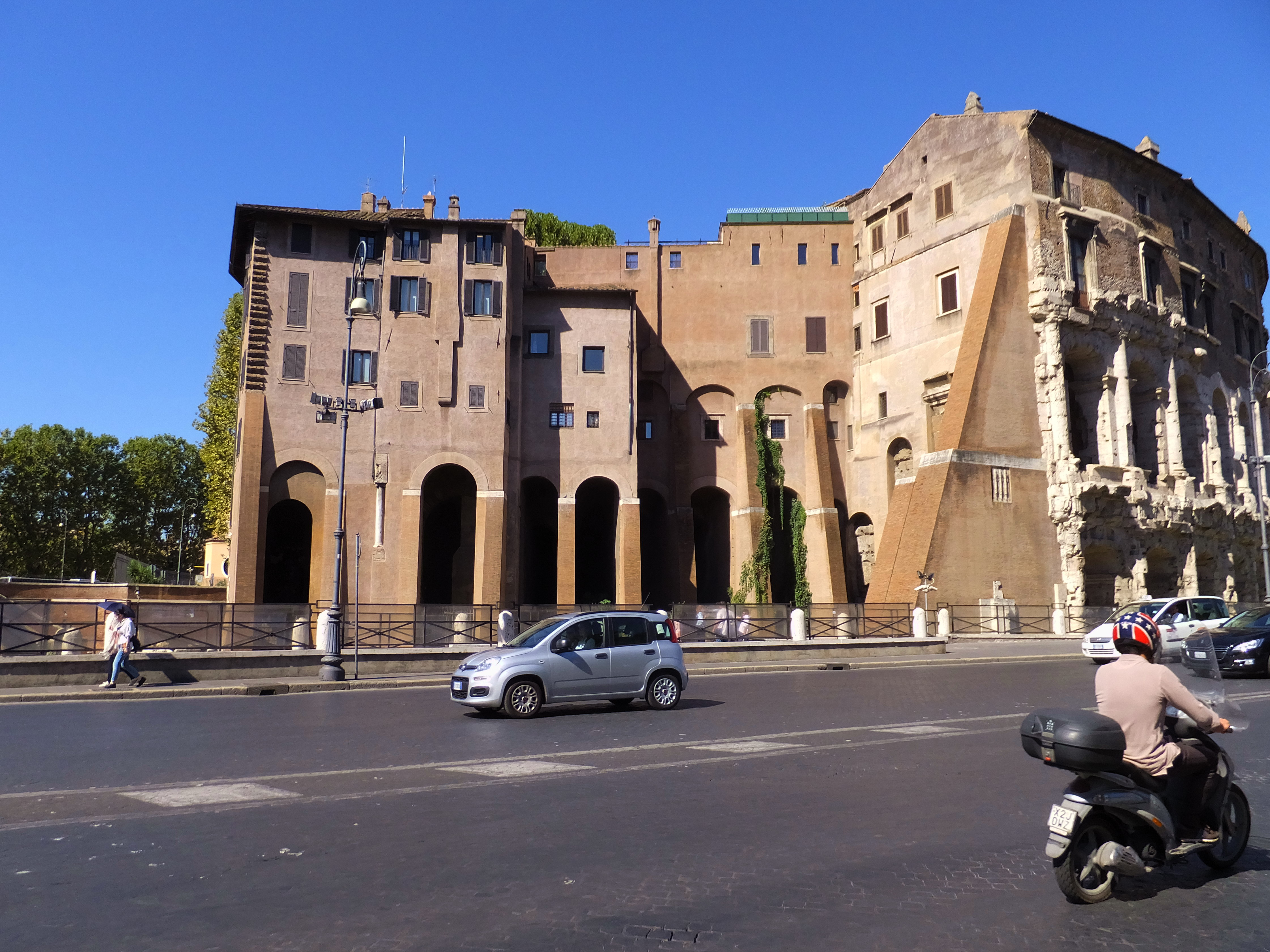 Marcello Theater 馬切羅劇場